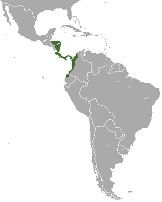 White-headed Capuchin (Cebus capucinus) range